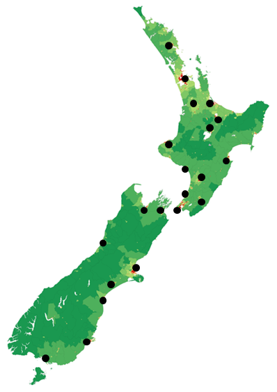 This is a map of Radio Sport frequencies, and population density.